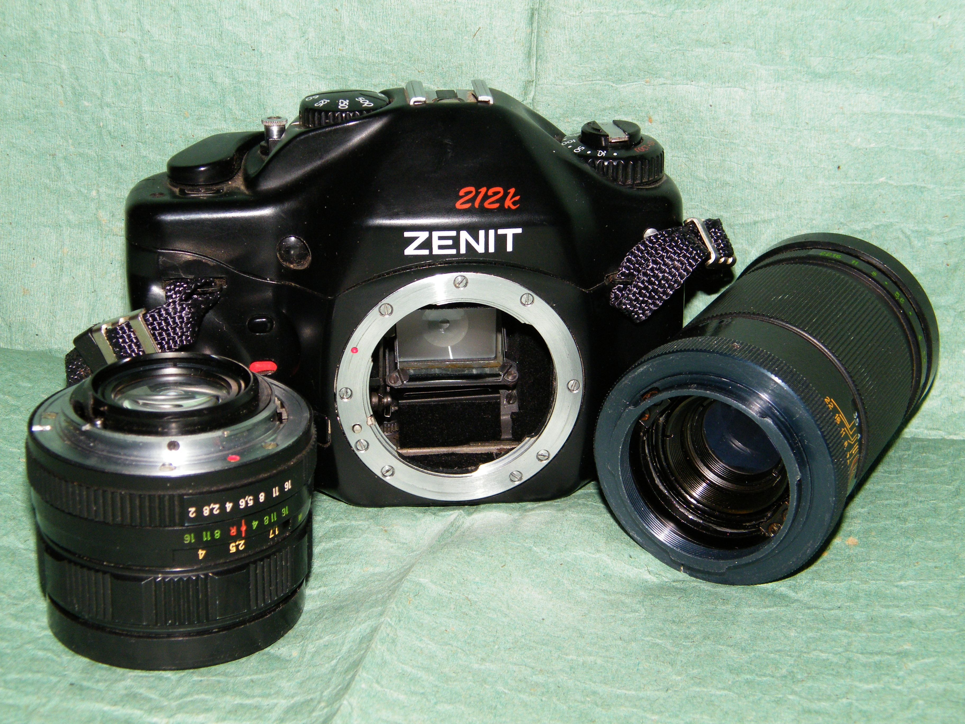 Zenit 212k